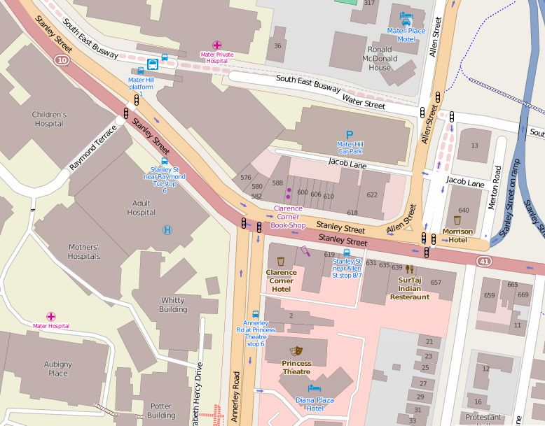 Open Street Map - Clarence Corner